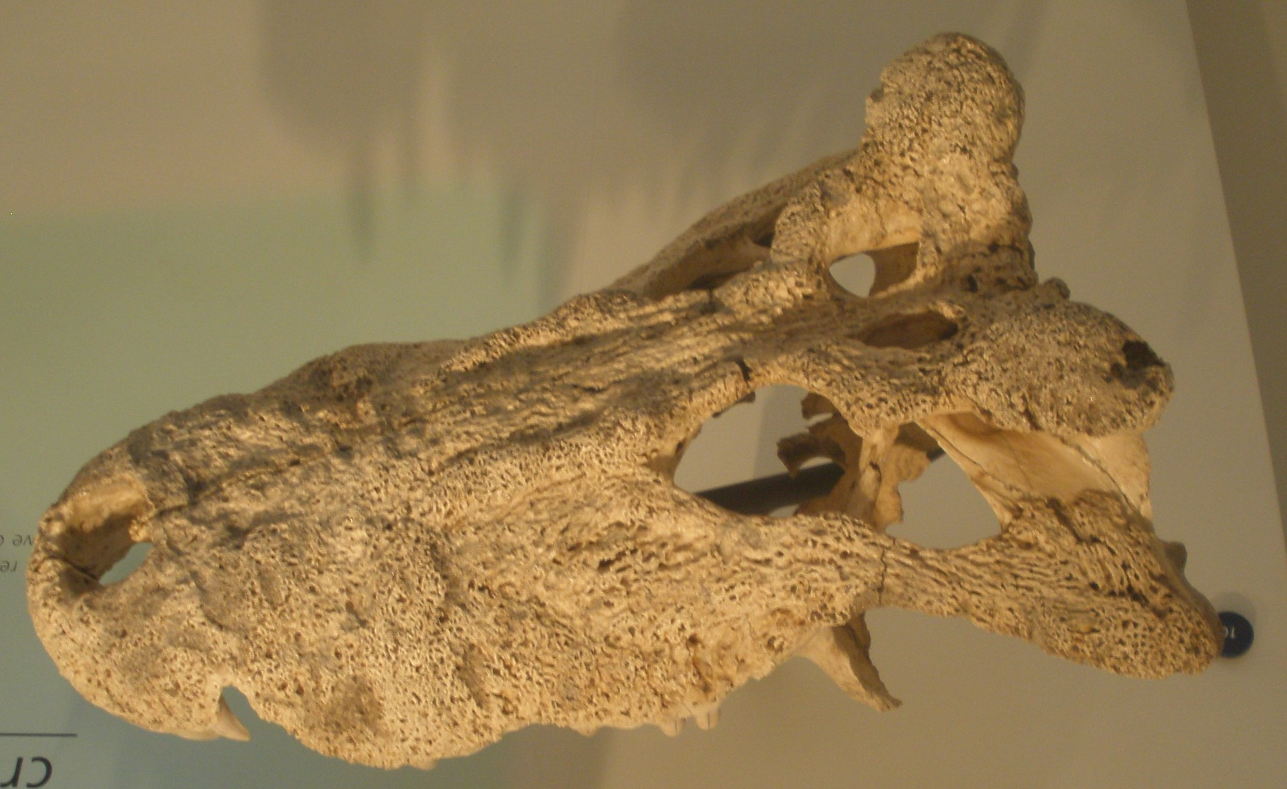 Skull of Voay robustus, a fossil croc